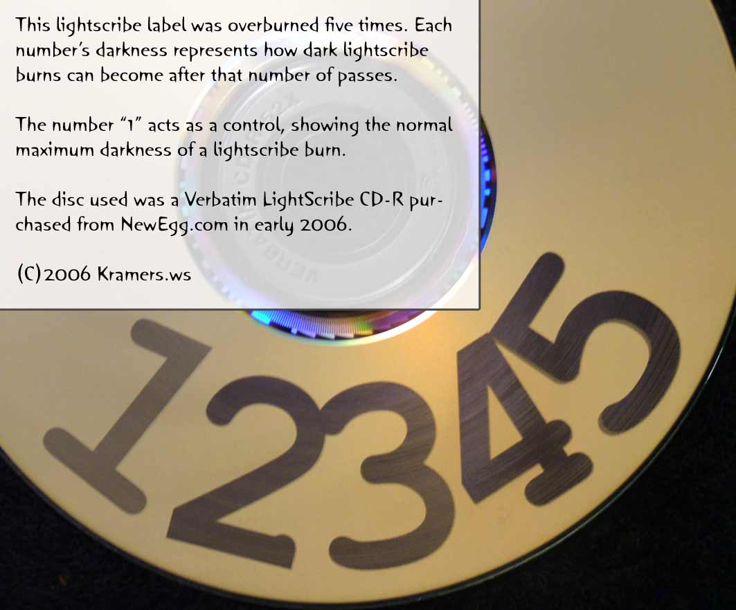 Demonstration of the darkening effect of repeated (5x) overburning of the label of a LightScribe CD.